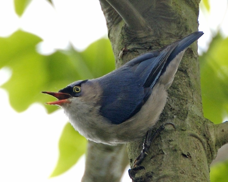 Velvet-fronted Nuthatch (Sitta frontalis) in Kazaringa, Assam, India on 15 April 2008.